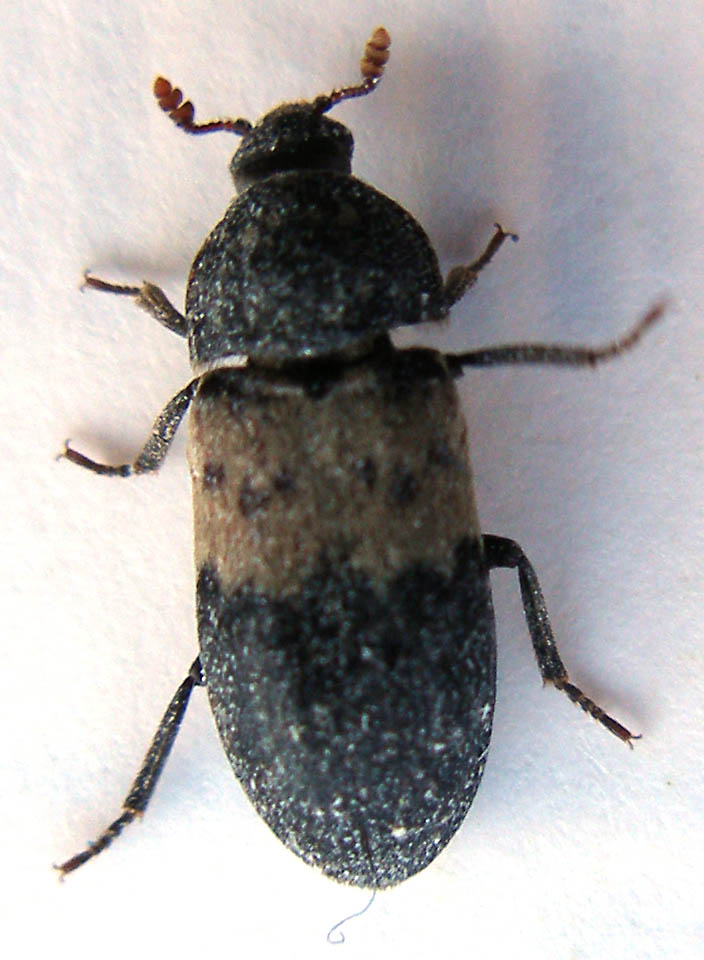 Klannebille (probable norwegian name) top. The insect was alive while being photographed. Picture taken in Leikanger, Sogn og fjordane, Norway.